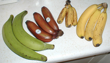 Photo of four varieties of bananas. From left to right: plantain, red banana, apple banana, and Cavendish banana.